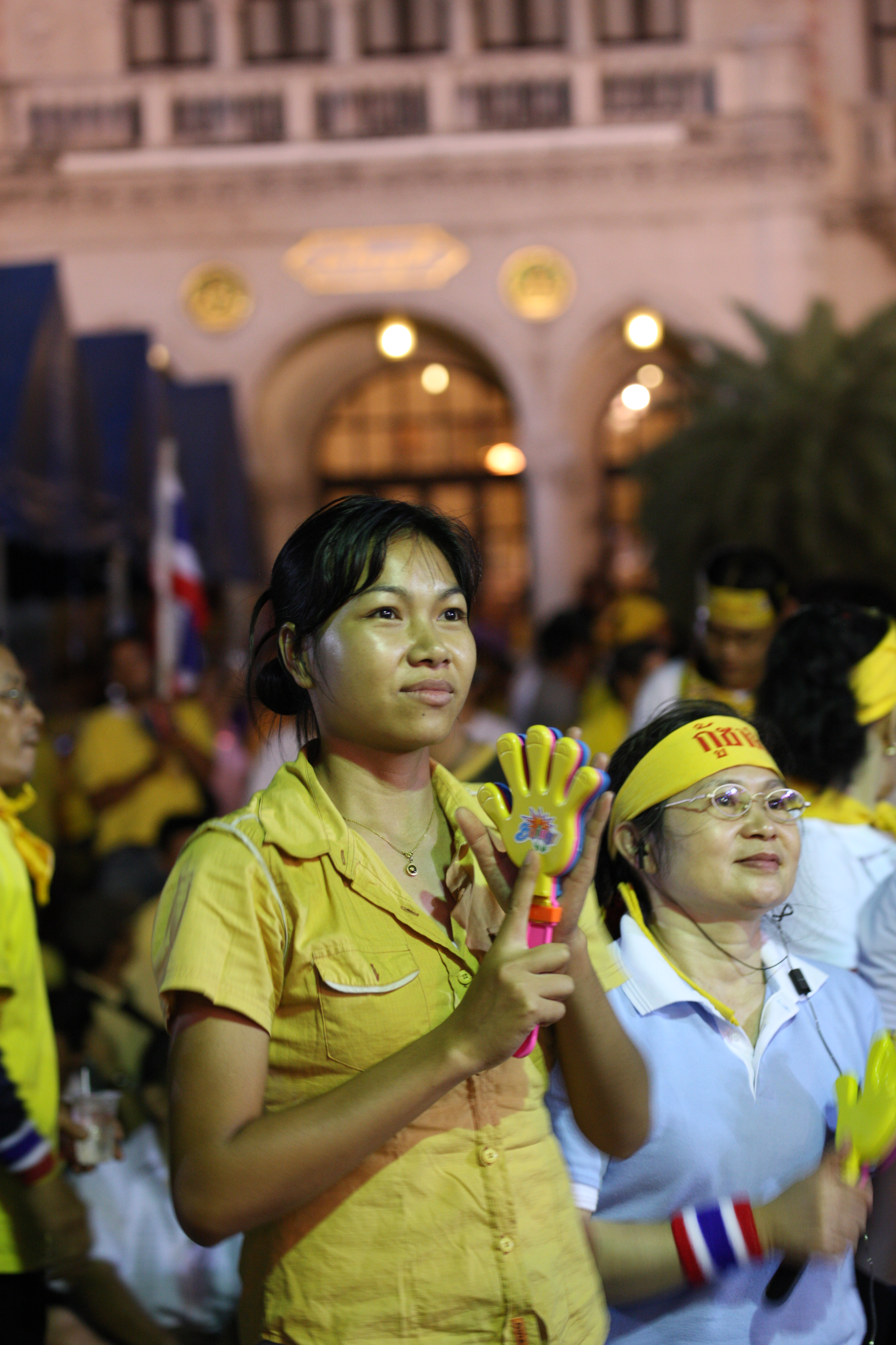 "People's Alliance for Democracy" protesters at the Thai Government House, 26 August 2008